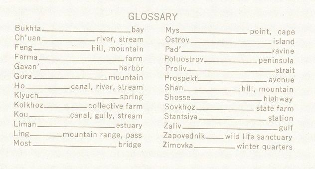 Manchuria AMS Topographic Maps